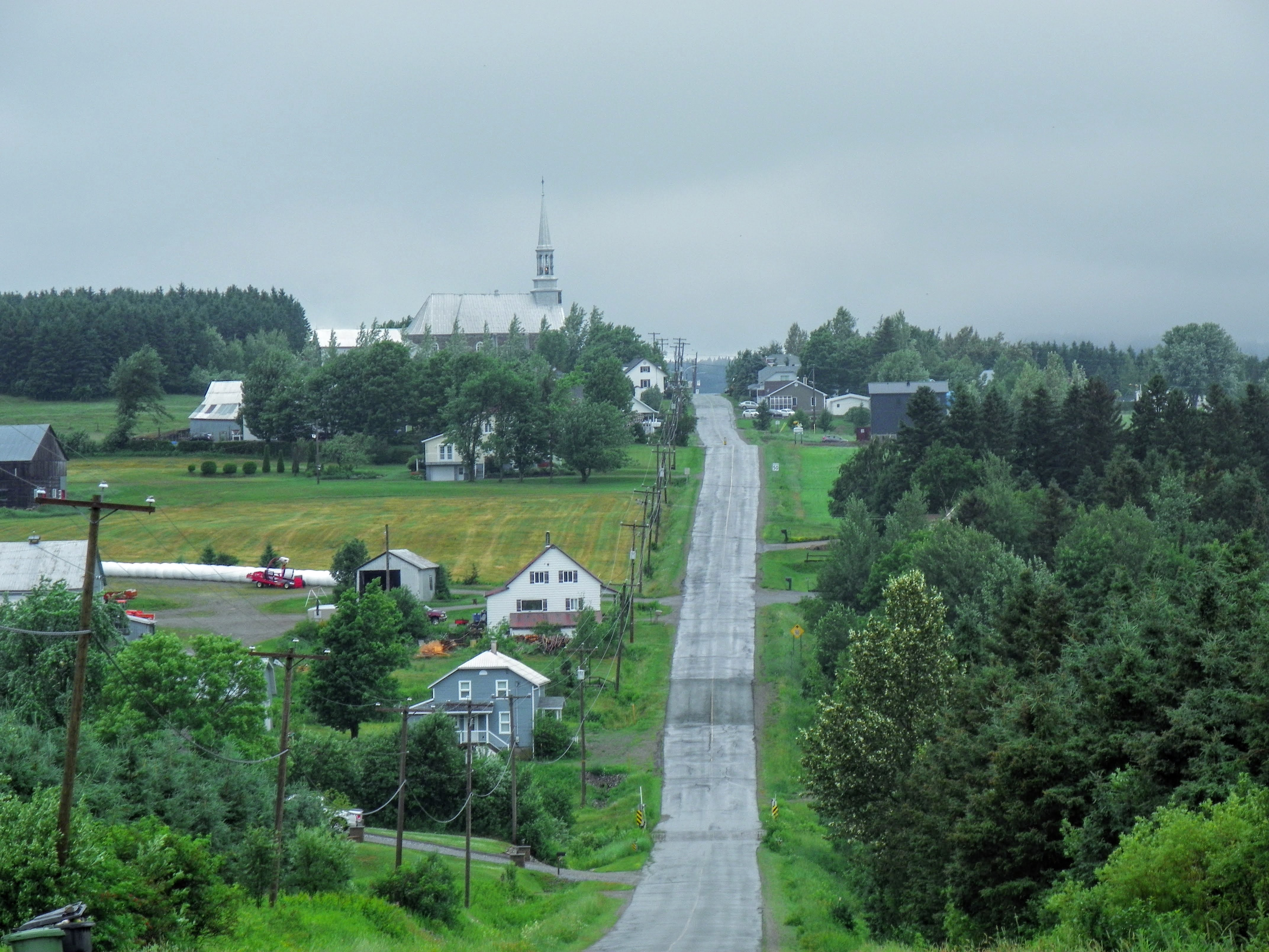 View of the village of Saint-Séverin, Québec, from Rang 1 South.